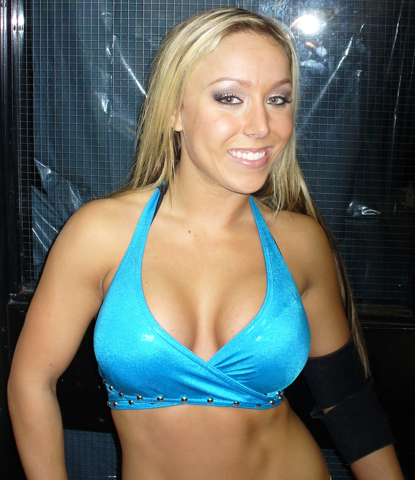 Pro wrestler Taylor Wilde (real name Shantelle Malawski) at a BSE event at the Terry Miller Recreational Centre in Brampton, ON